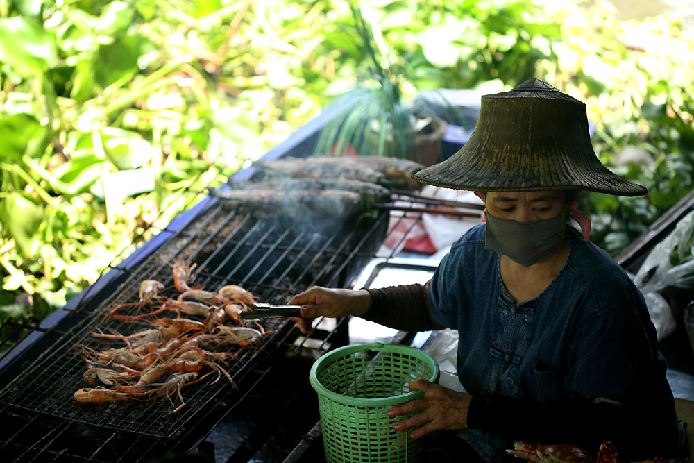 A scene at Taling Chan floating market in Bangkok